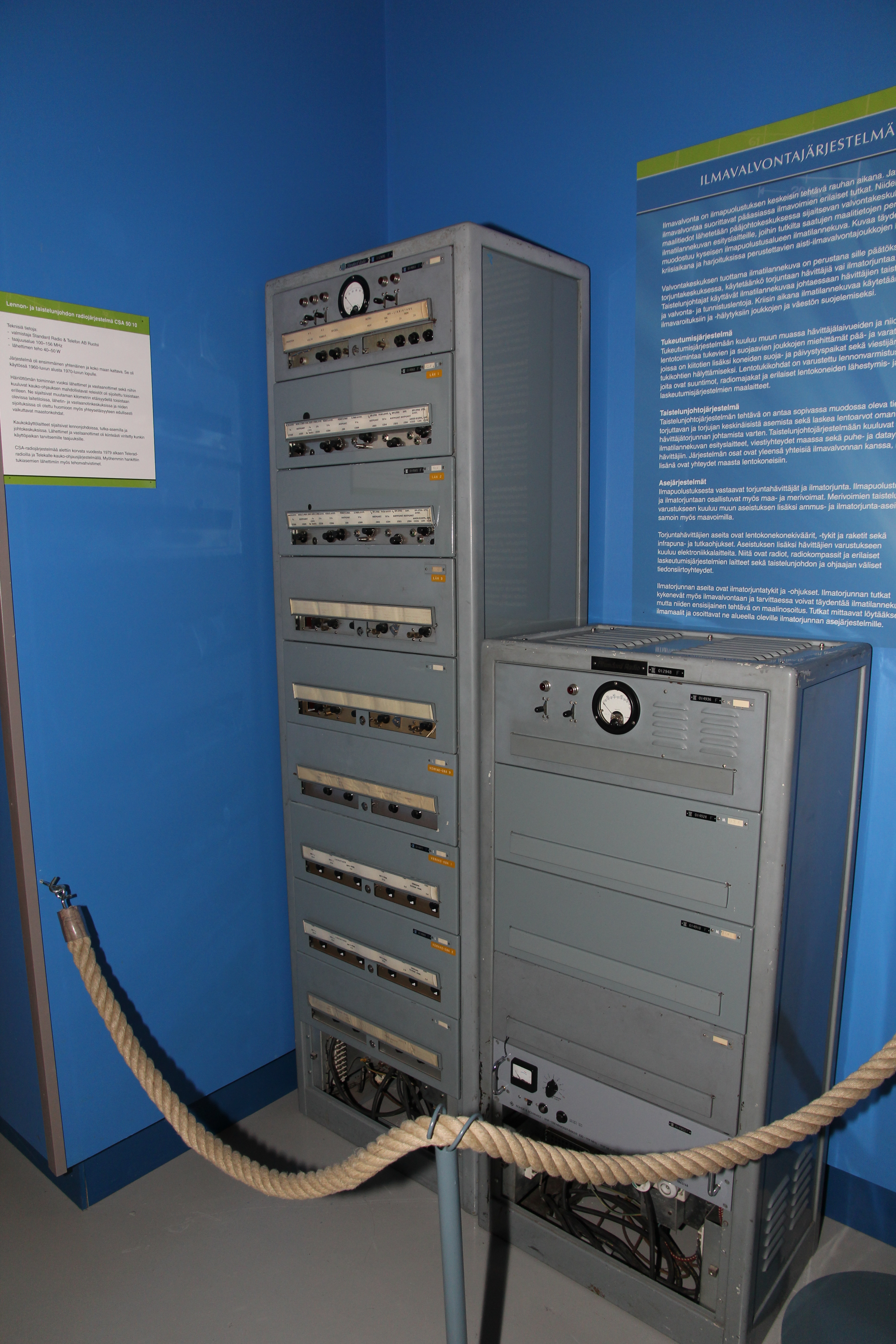 Air traffic and fighter control radio system CSA 50/10 manufactured by Standard Radio & Telefon AB. Photographed in the Finnish Air Force signals museum.